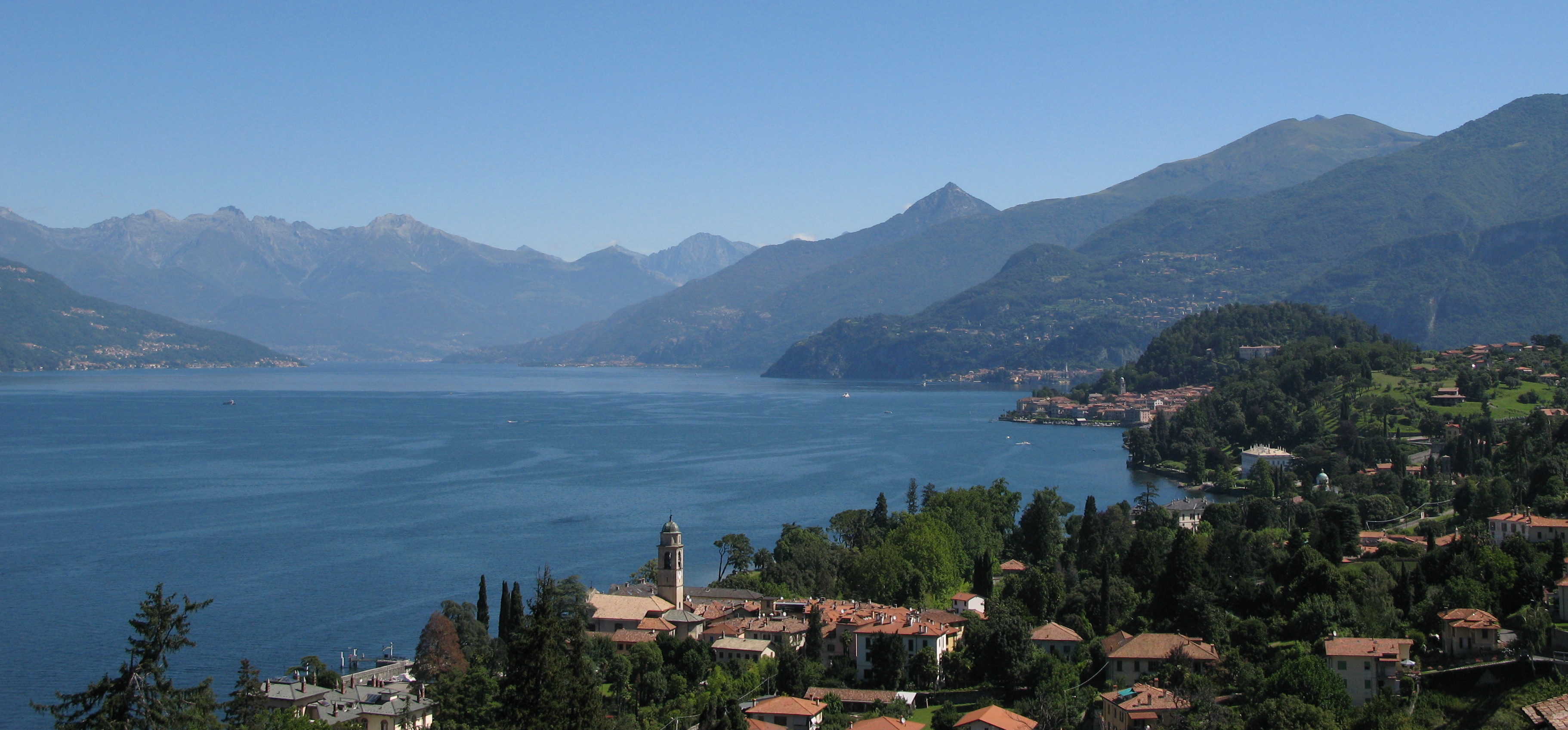 View of Bellagio from Vergonese